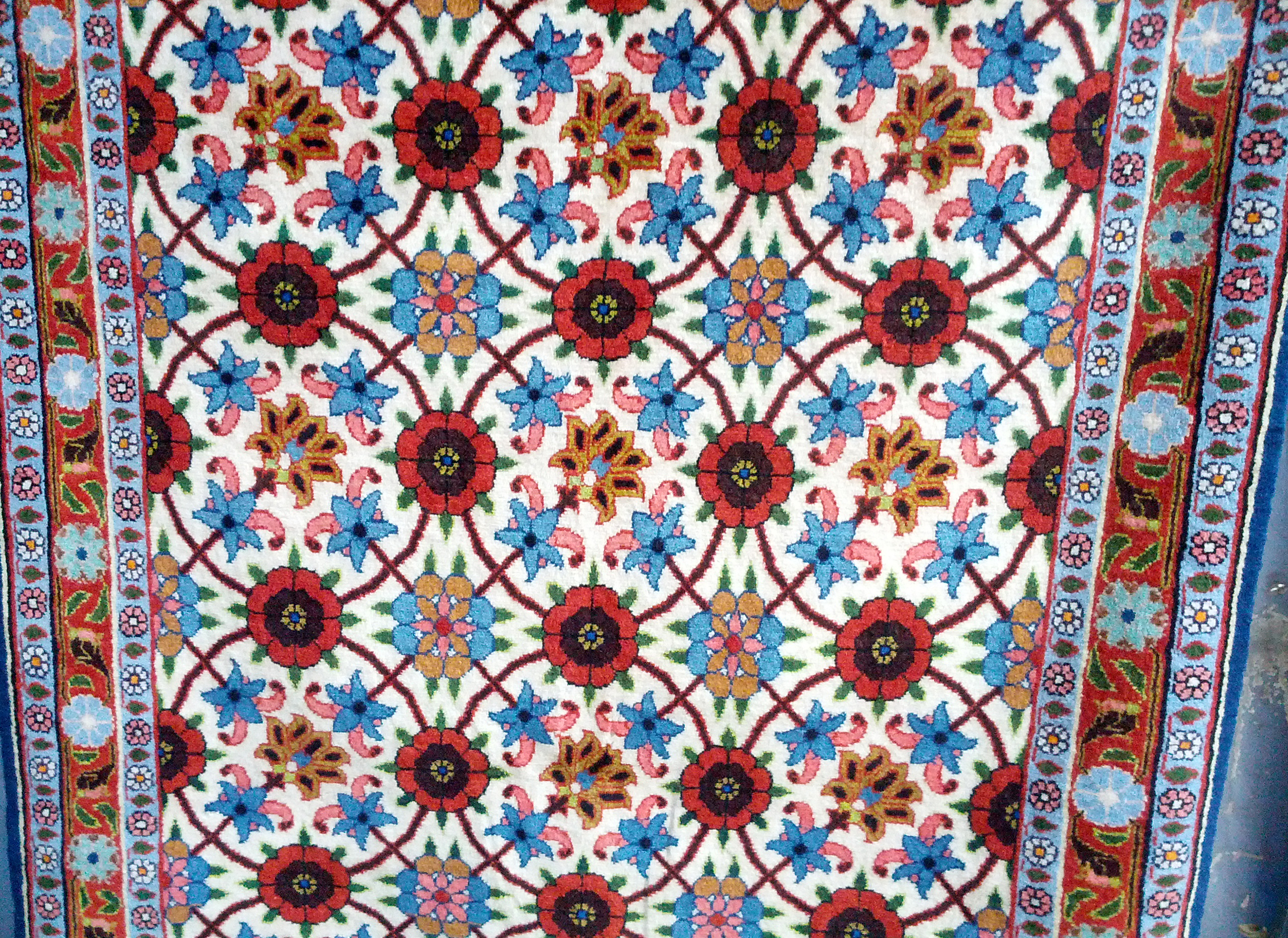 A Carpet from Varamin, Iran with Mina Khani design.